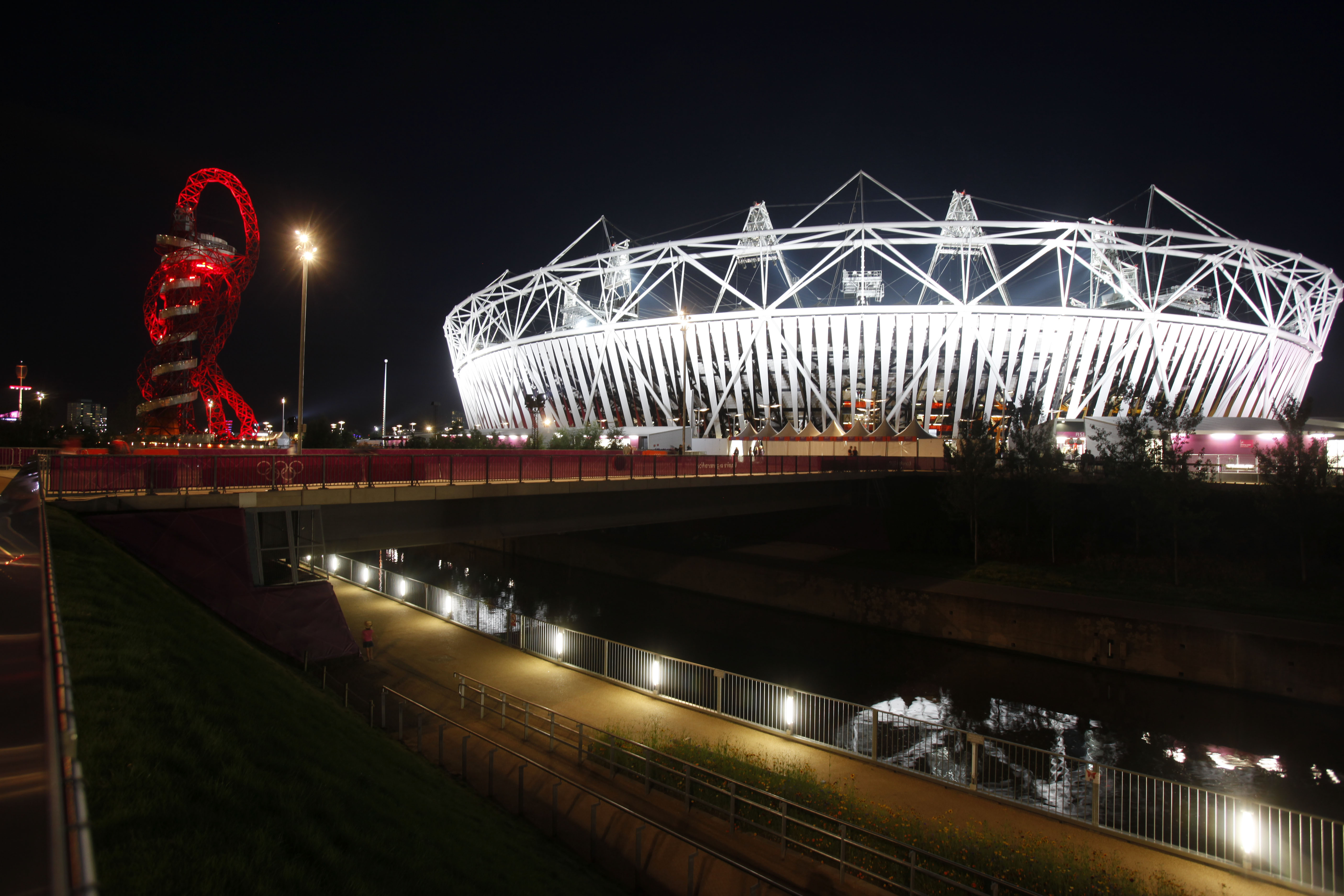 Night view of the Olympic Stadium, 5 August 2012